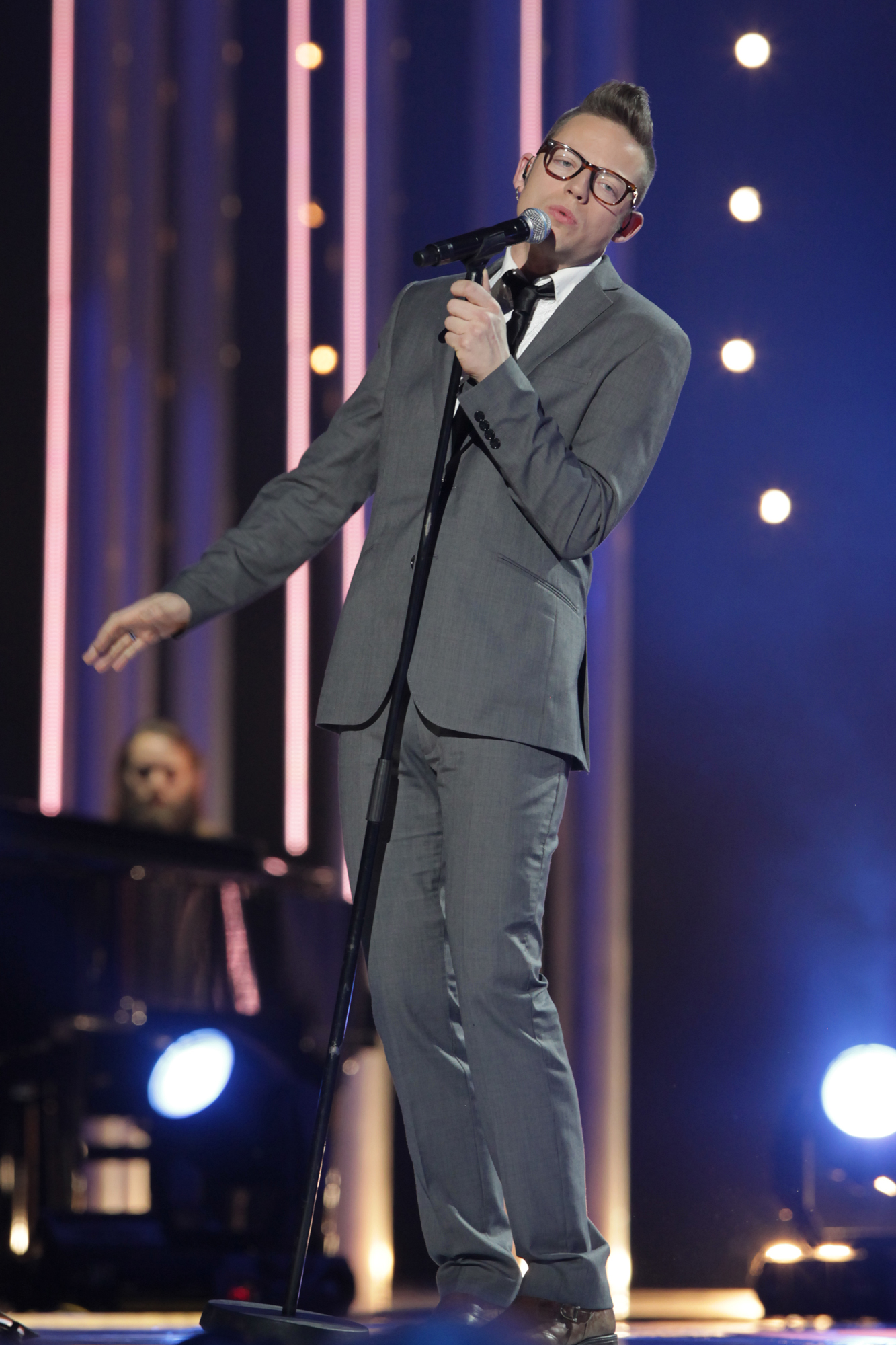 Nobel Peace Prize Concert 2011, Jarle Bernhoft